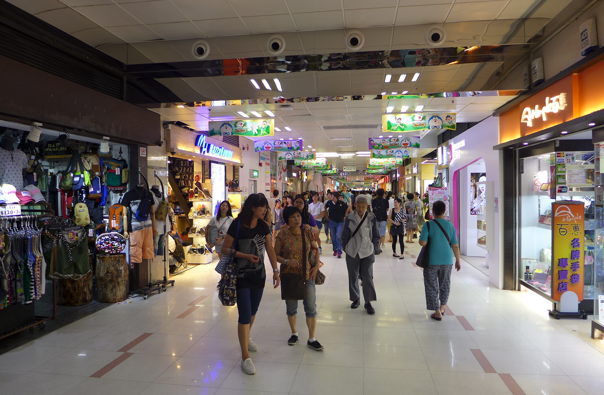 Waldorf Garden Shopping Arcade L3 Access